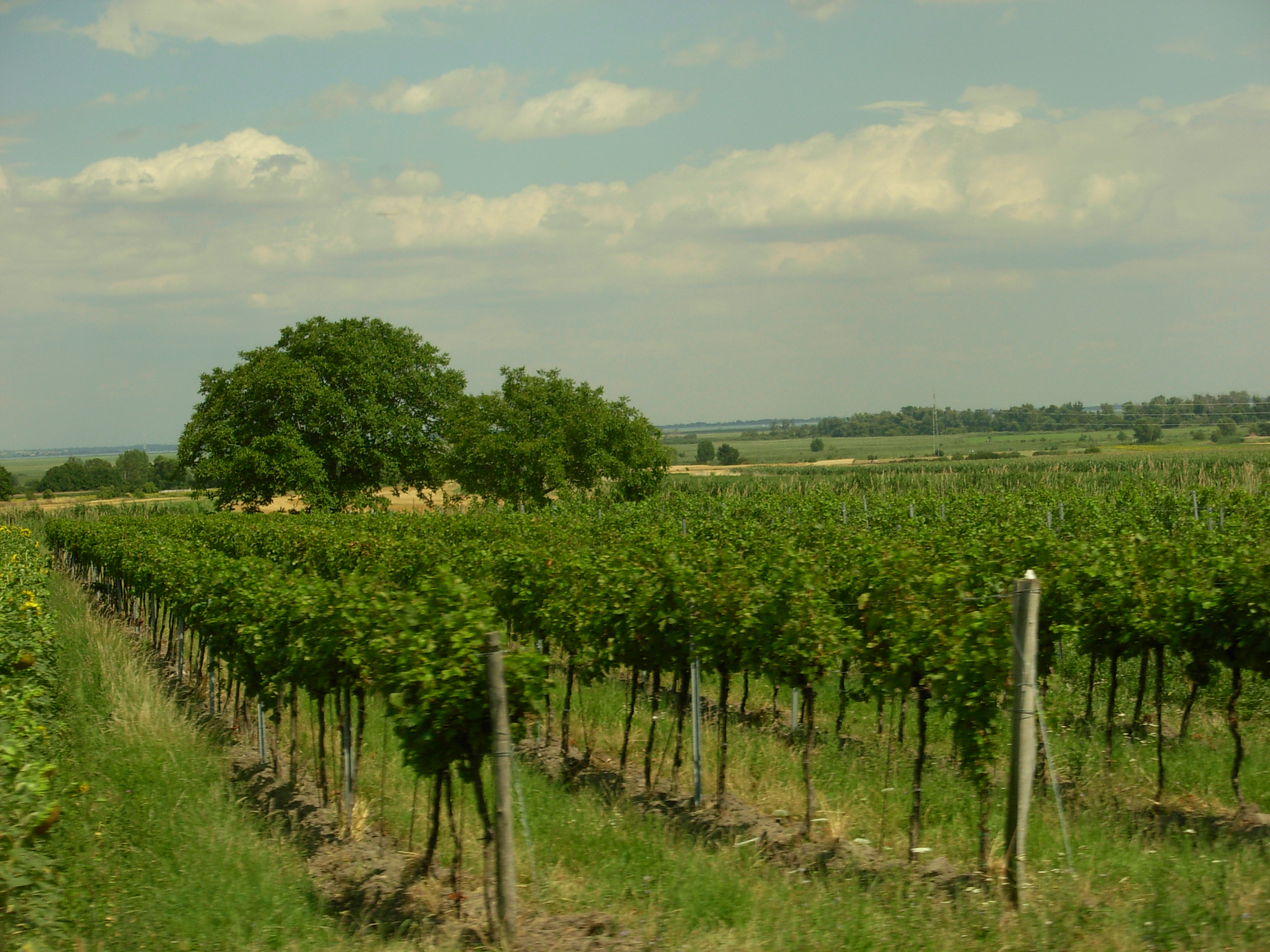 Vineyard in Lower Austria